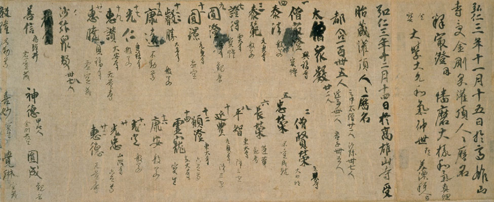 Name List of Abhiseka (Initiates) (灌頂歴名, kanjōrekimei) or "List of individuals admitted into the mysteries of Shingon Buddhism". List of people and deities in 812 who underwent the Abhiseka ritual at Takaosan-ji (高雄山寺) (now Jingo-ji), presided by Kūkai. Part of the handscroll, ink on paper, 29.0 cm × 268.4 cm (11.4 in × 105.7 in) located at Jingo-ji, Kyoto. The scroll has been designated as National Treasure of Japan in the category ancient documents.